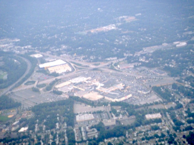 Garden State Plaza seen from the airplane